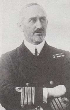 Naval service photo of Geoffrey Spicer-Simson